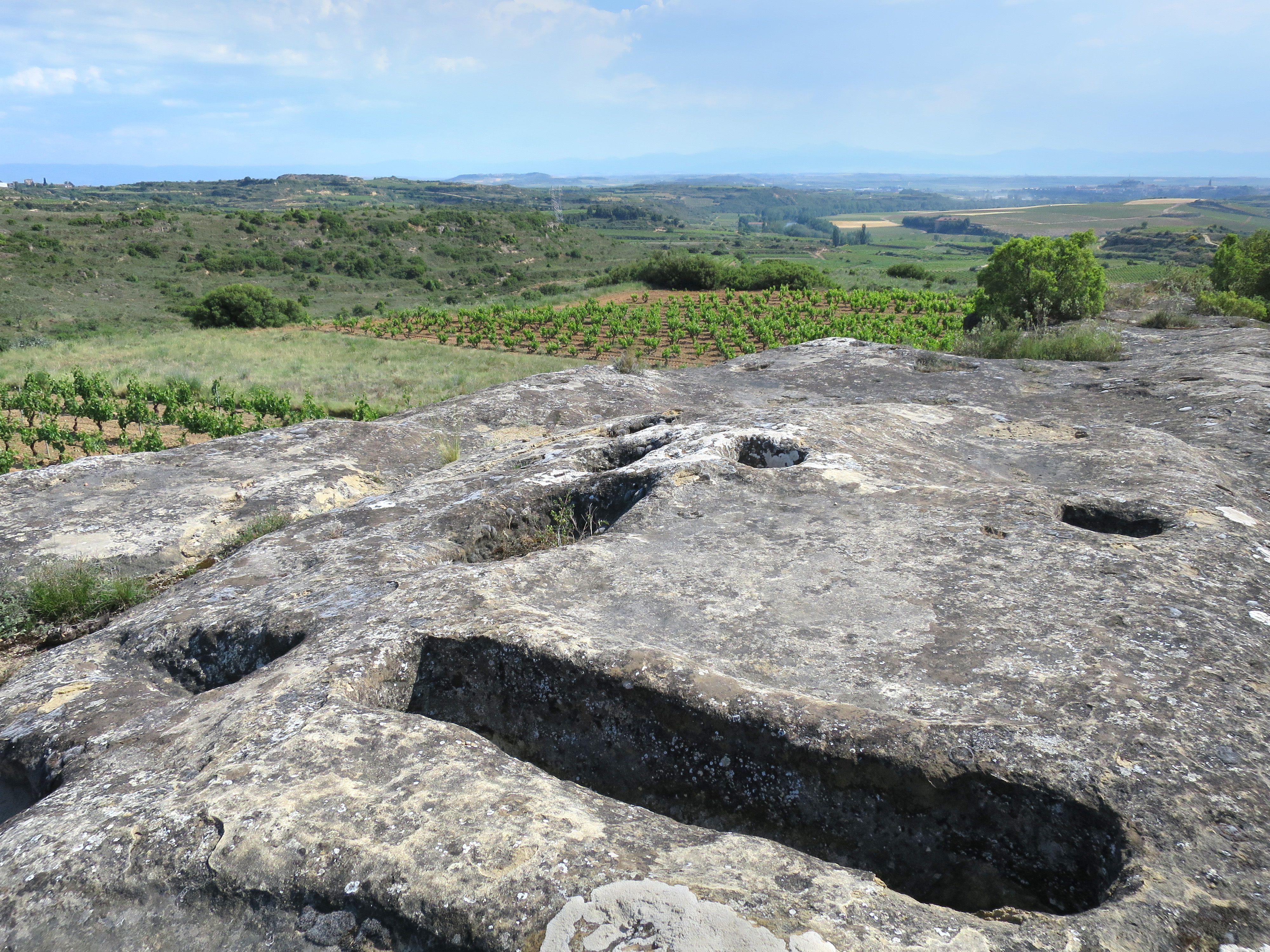 Remains of a medieval wine press located near Labastida in the Rioja Alavesa in the Basque Country.